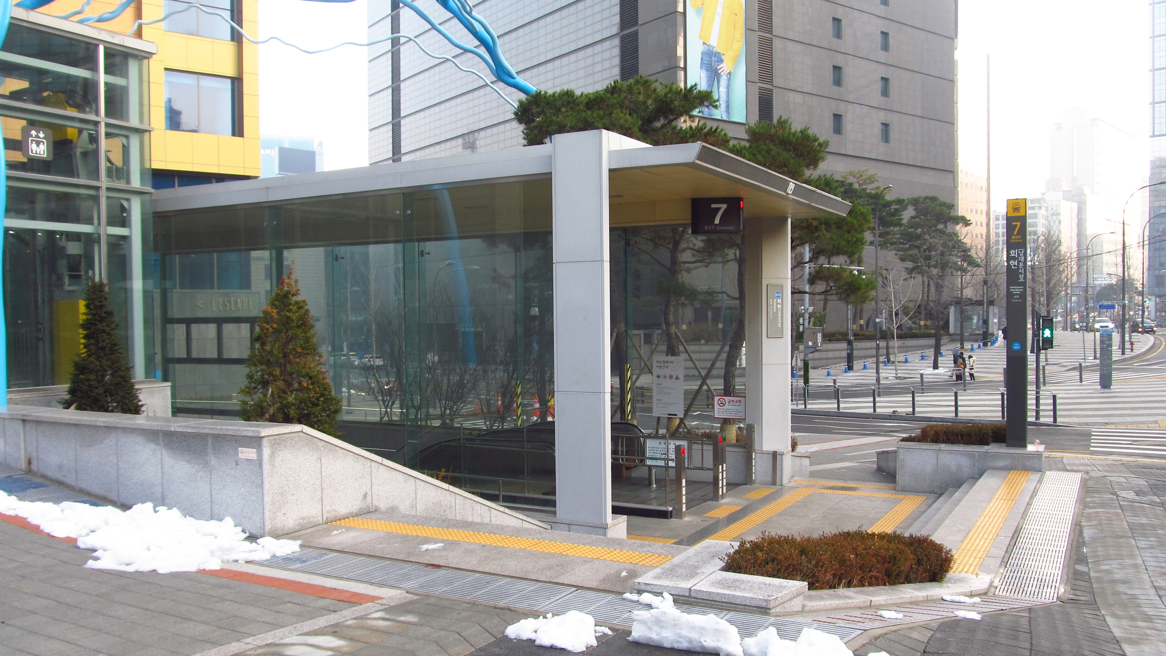 The no.7 entrance to Hoehyeon Station on Seoul Subway Line 4 in Jung-gu, Seoul, Republic of Korea(South Korea)